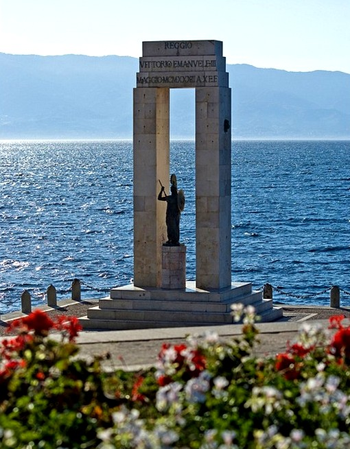 Reggio Calabria